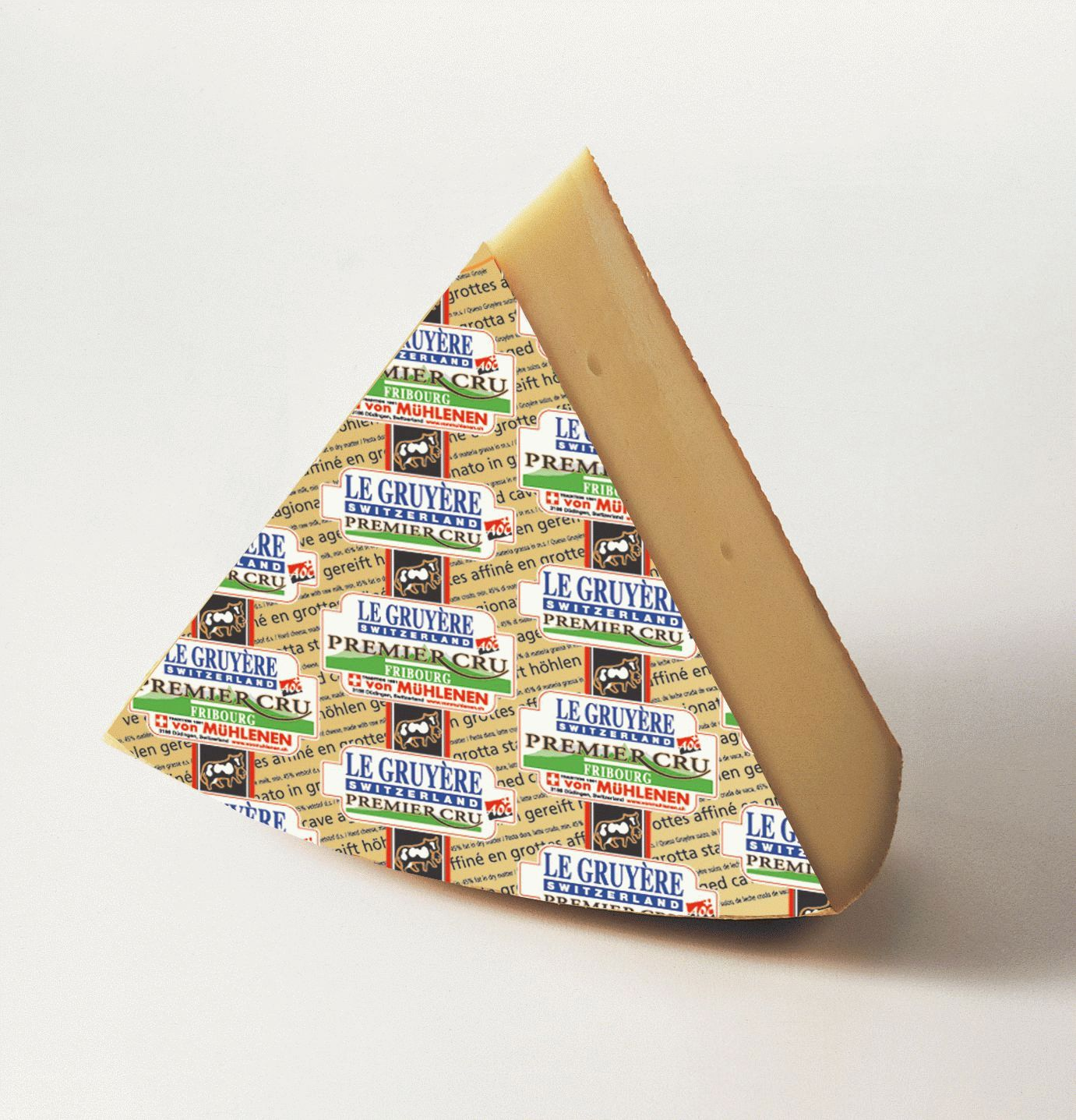 Gruyere Premier Cru, 1/4 wedge. Le Gruyere Premier Cru is a special variety, produced and matured exclusively in the canton of Fribourg and matured for 14 month in humid caves with a humidity of 95% and a temperature of 13,5° Celsius It is the only cheese that has won three times in 1992, 2002, 2005 the title best cheese of the world at the World cheese Awards in London.